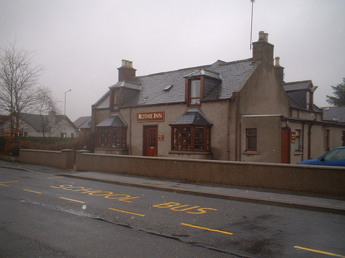 Rothie Inn, Rothienorman, Aberdeenshire